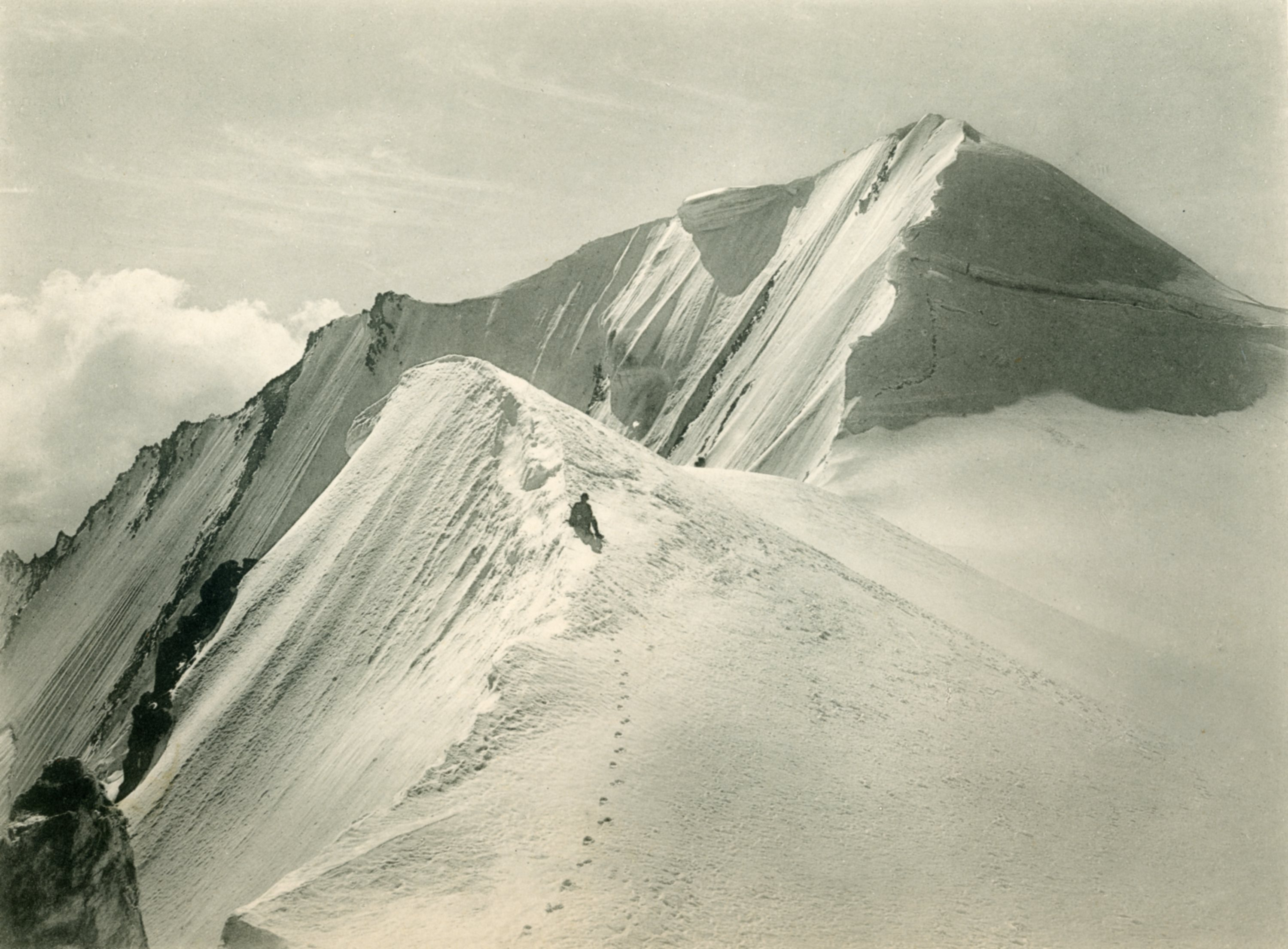 Hochfeiler, historical Photo about 1890